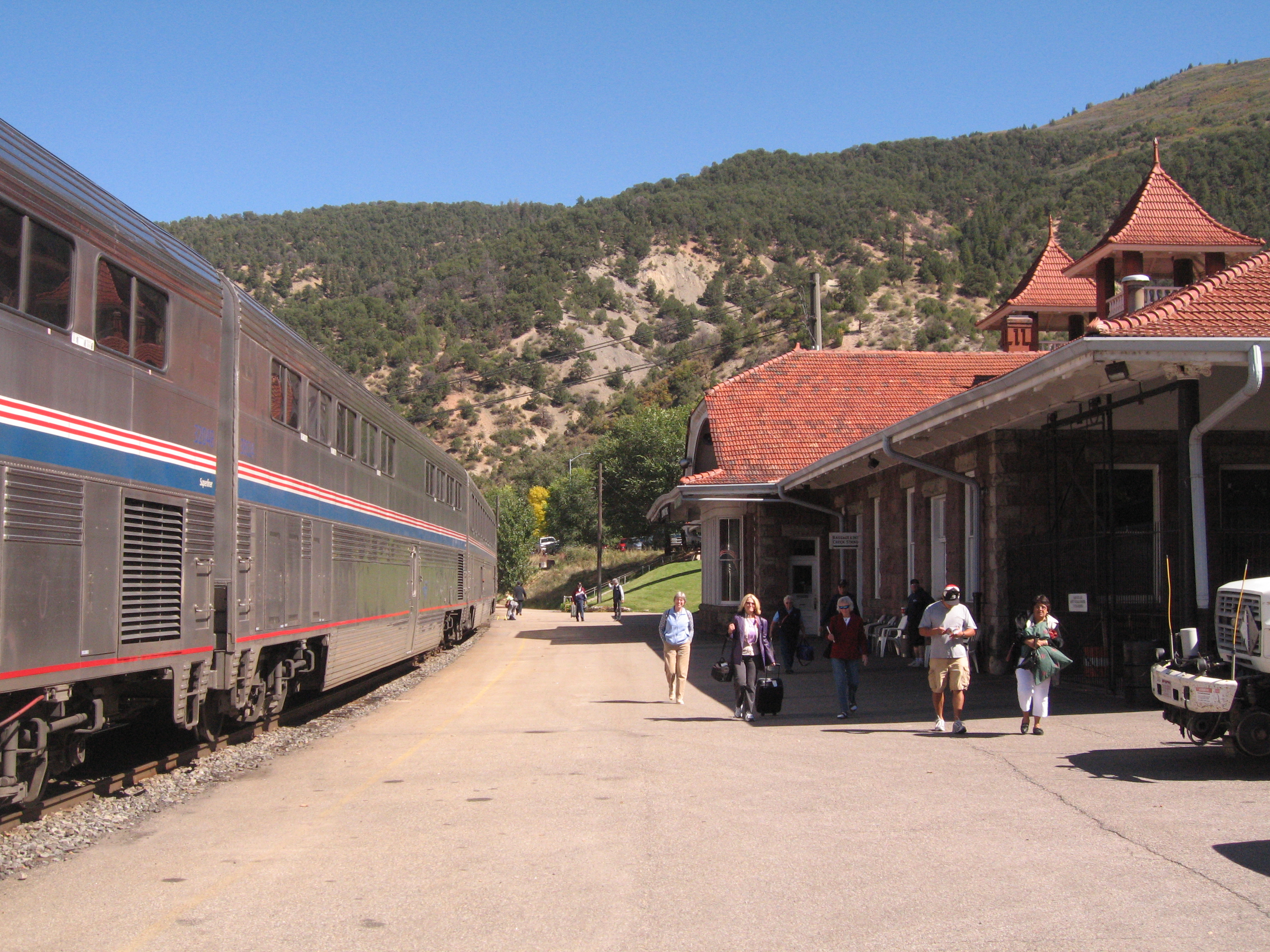 Westbound California Zephyr train at Glenwood Springs Amtrak Station. September 25th, 2006.